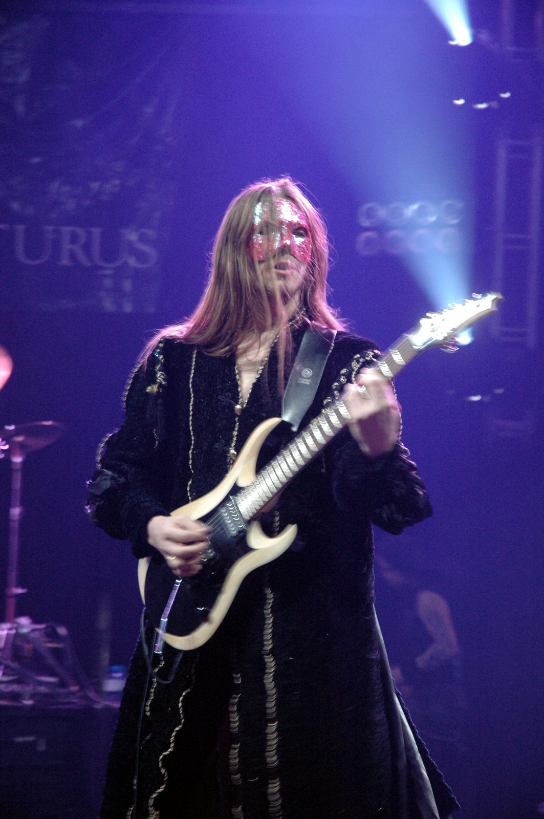 Knut Magne Valle from Arcturus at Metalmania Festival 2005 in Poland